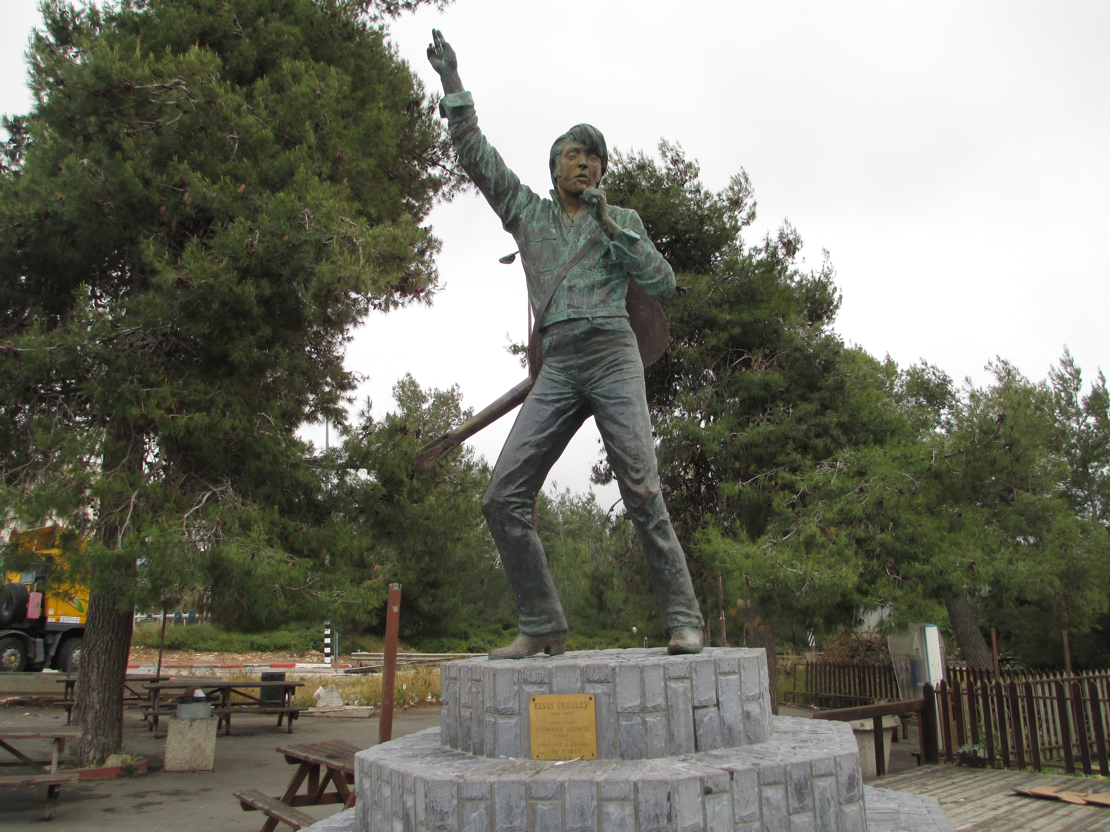 Elvis Inn, Neve Ilan